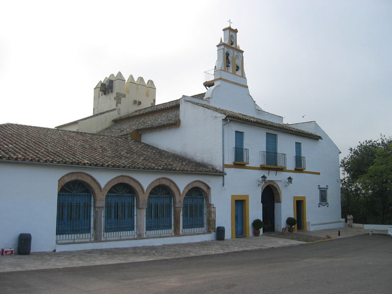 Nuestra Señora de Linares Sanctuary, in Córdoba (Spain).